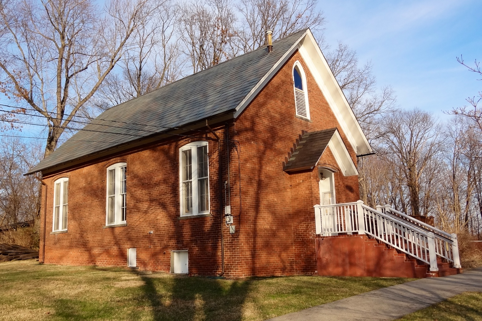 Borough Hall in Millstone, Somerset County, NJ. Built circa 1850 date QS:P,+1850-00-00T00:00:00Z/9,P1480,Q5727902. Was a one-room school house from 1860 to 1944.